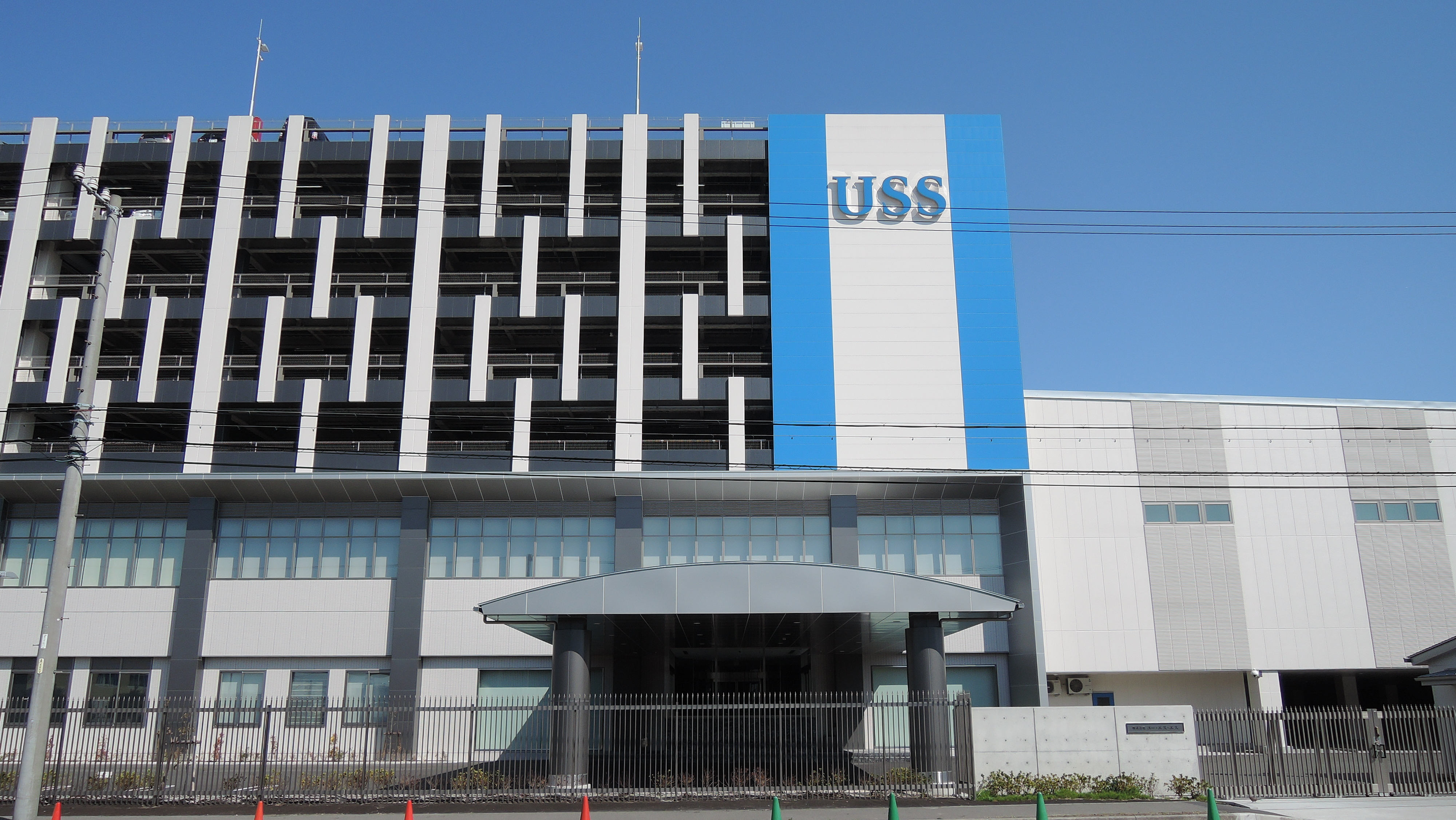 Headquarters of USS Co., Ltd.,Aichi prefecture,Japan